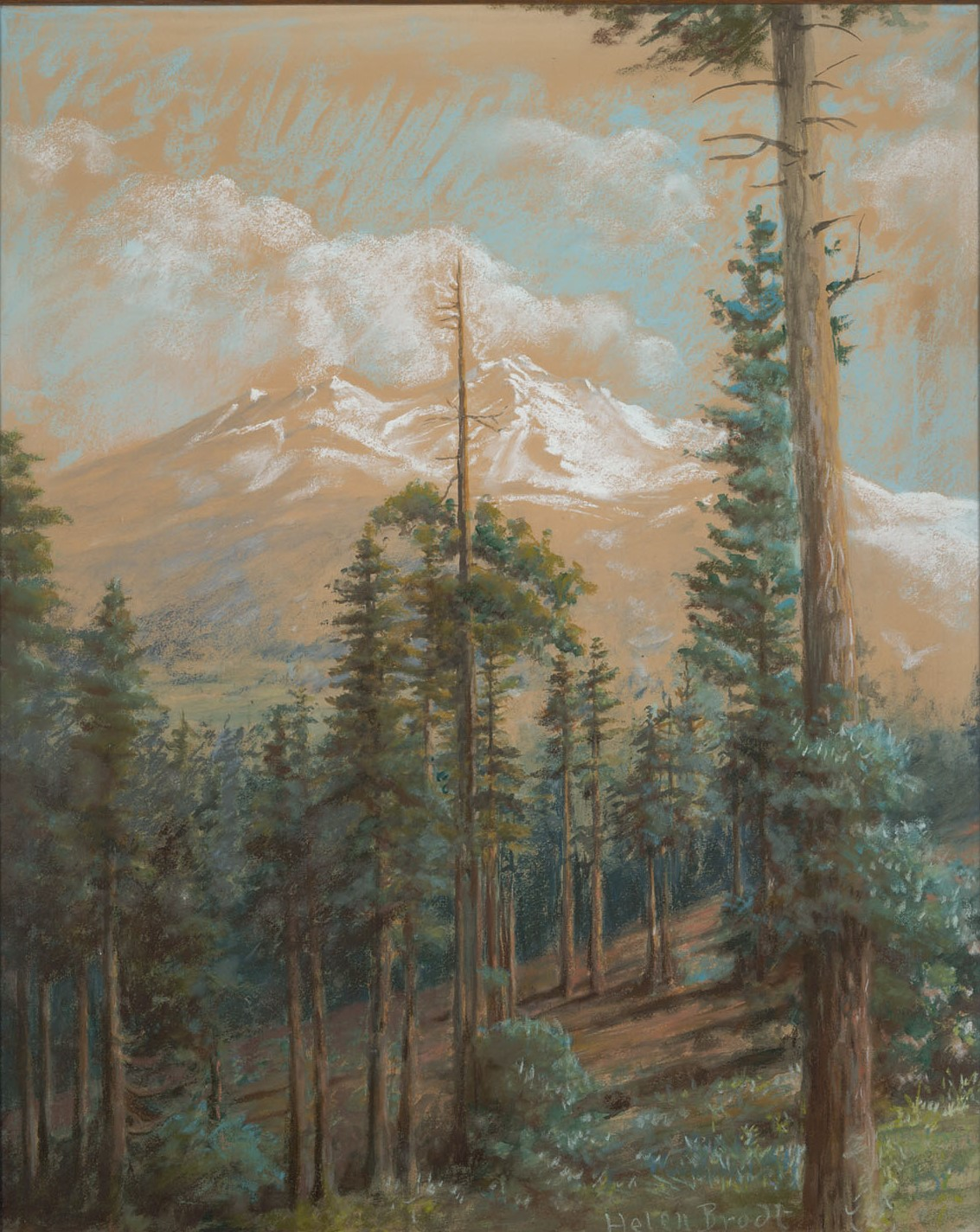 Title: [Mount Shasta viewed through trees] Description: Content/DescriptionVertical view of Mount Shasta looking through tree-lined slope in the foreground. Creator/Contributor: Brodt, Helen Tanner, 1838-1908, artist Date: [186-?] Contributing Institution: UC Berkeley, Bancroft Library